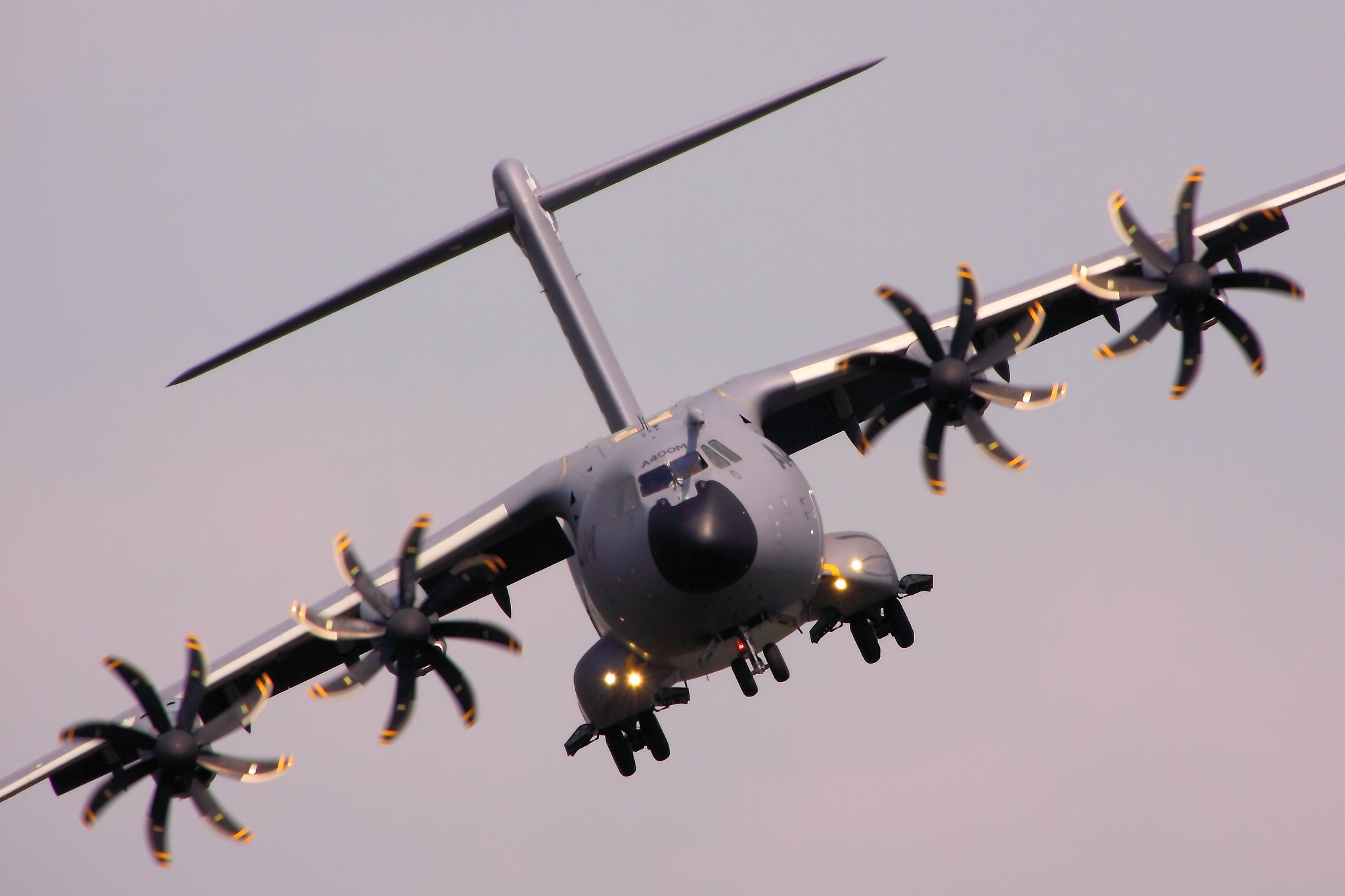 Airbus A400M inflight at the 2013 Royal International Air Tattoo.